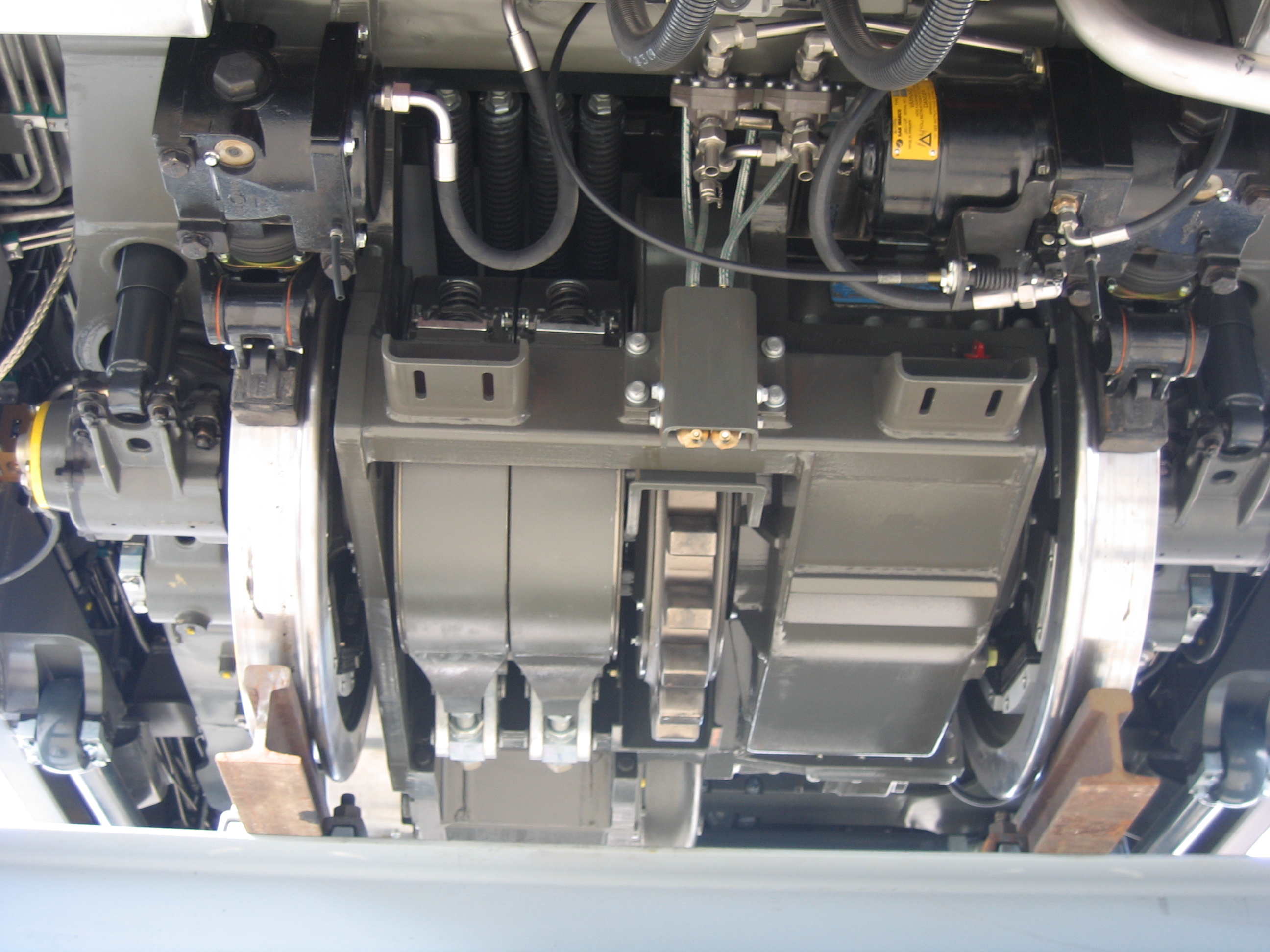 view from under the bogie of a train